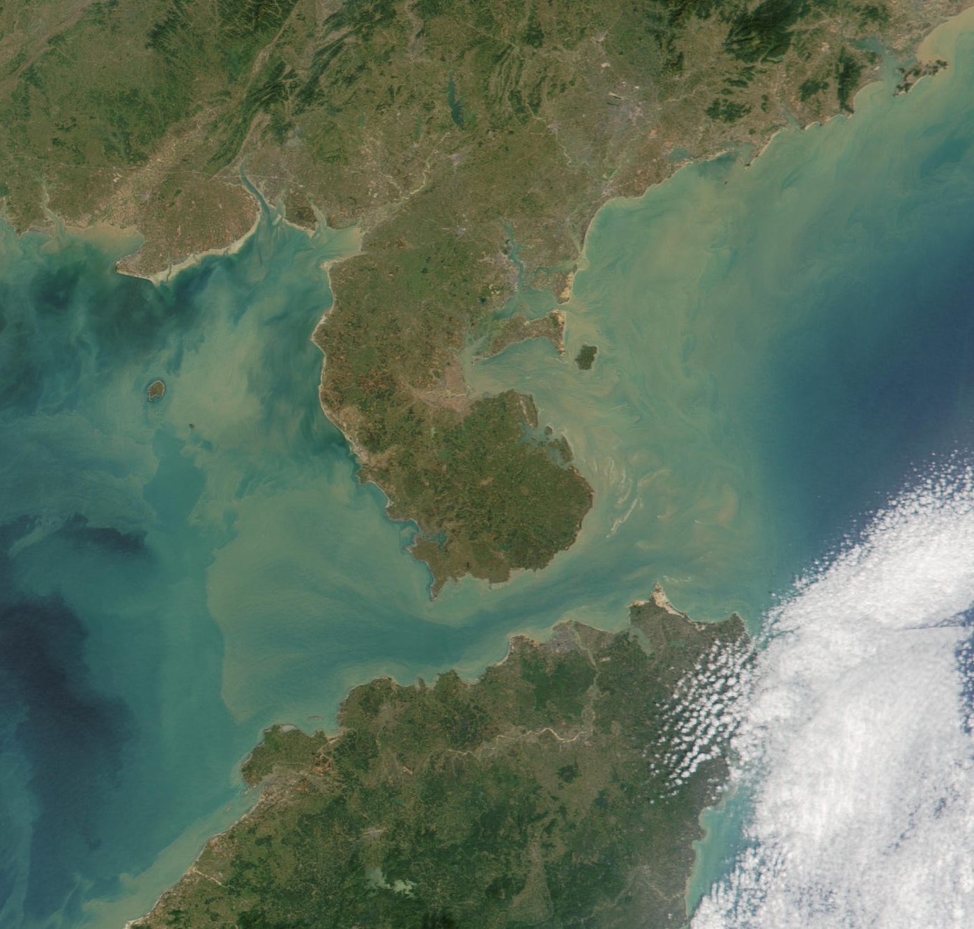 Satelite image of Leizhou Peninsula, and south across Qiongzhou Strait to Hainan island — in the Provinces of Guangdong (peninsula) and Hainan (island), in Southeast China.